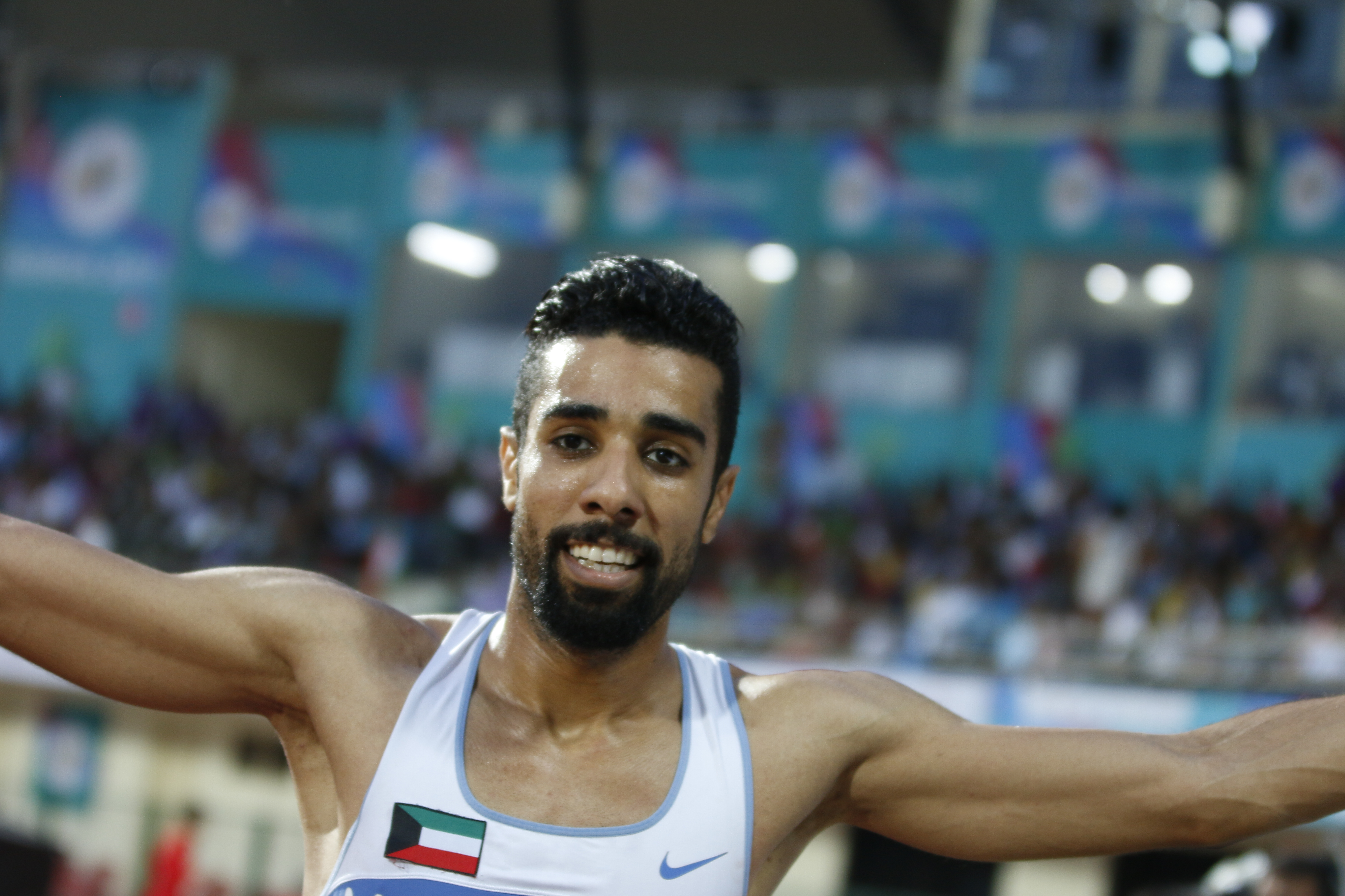 Athletes during 22nd Asian Athletics Championships in Bhubaneswar.